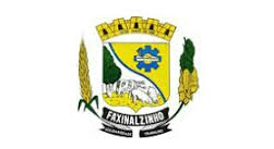 Flags of the city of Faxinalzinho, Rio Grande do Sul, Brazil.